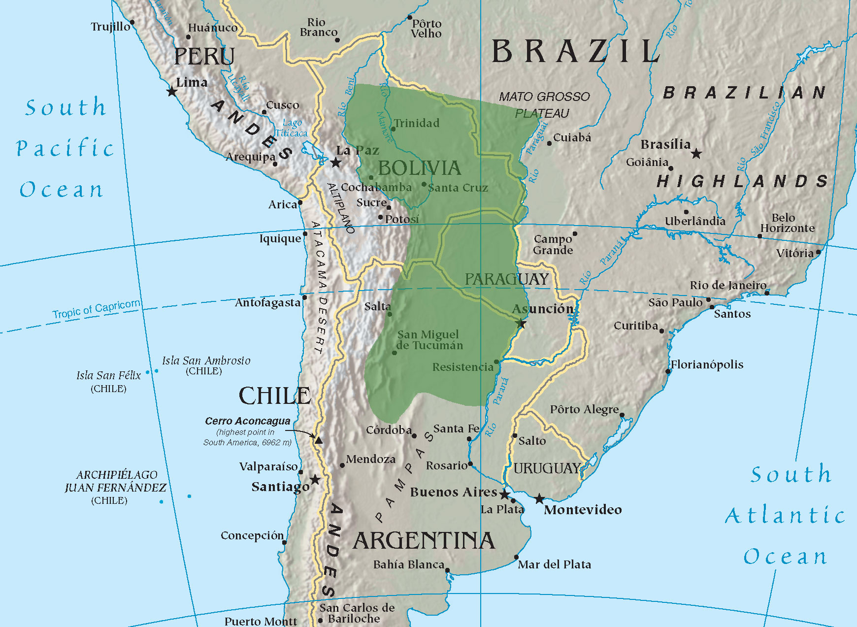 Very approximate location of the Gran Chaco (Underlying map taken from the CIA World Factbook)